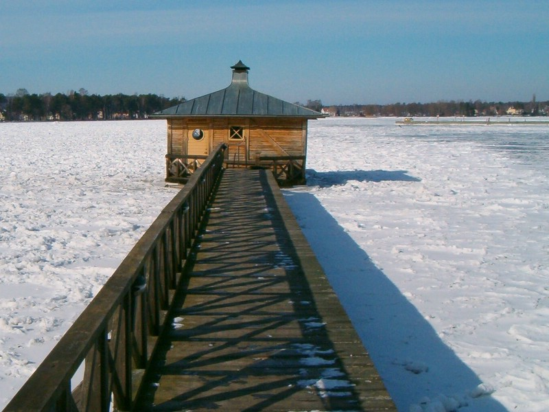 Sauna on the lake Vättern, picture taken in Karlsborg, Sweden. As it was cold in Sweden then, the lake was still covered with ice and snow.